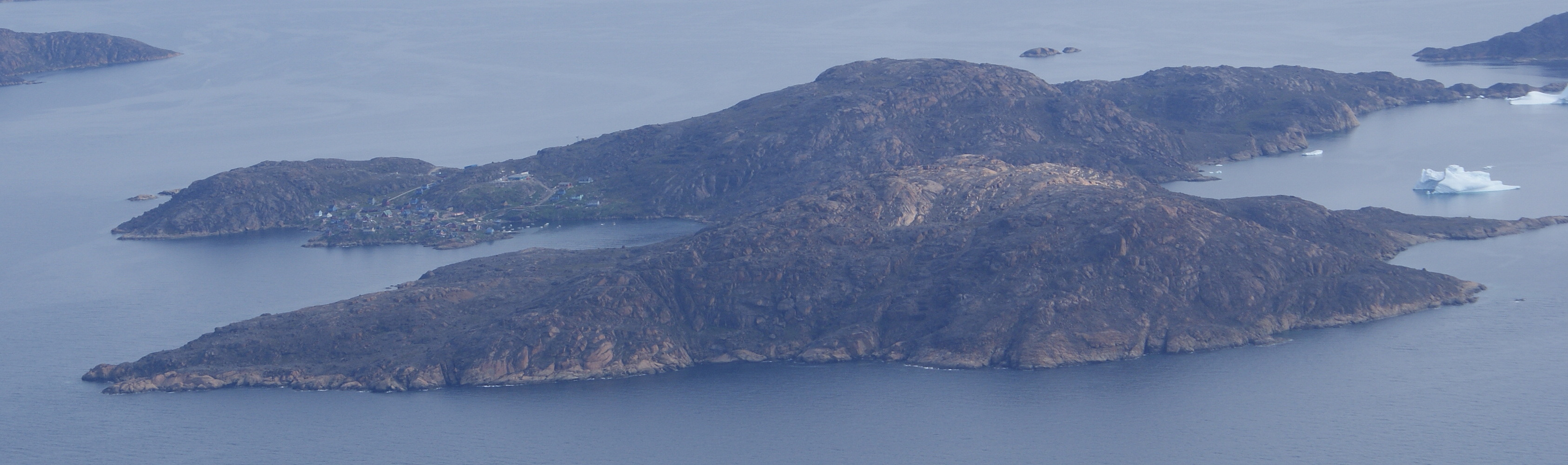 Aerial view of Kangersuatsiaq, Upernavik Archipelago, Greenland.